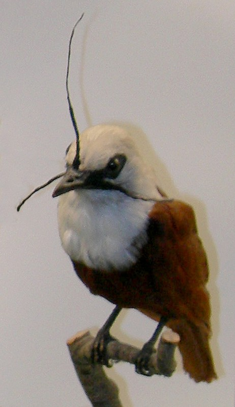 Mounted Three-wattled Bellbird (Procnias tricarunculatus), at the Muséum d'Histoire naturelle de Genève.